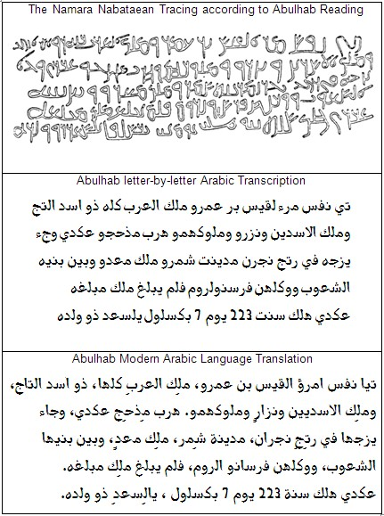 The New Updated Tracing and Reading of the Namara Inscription by Saad D. Abulhab